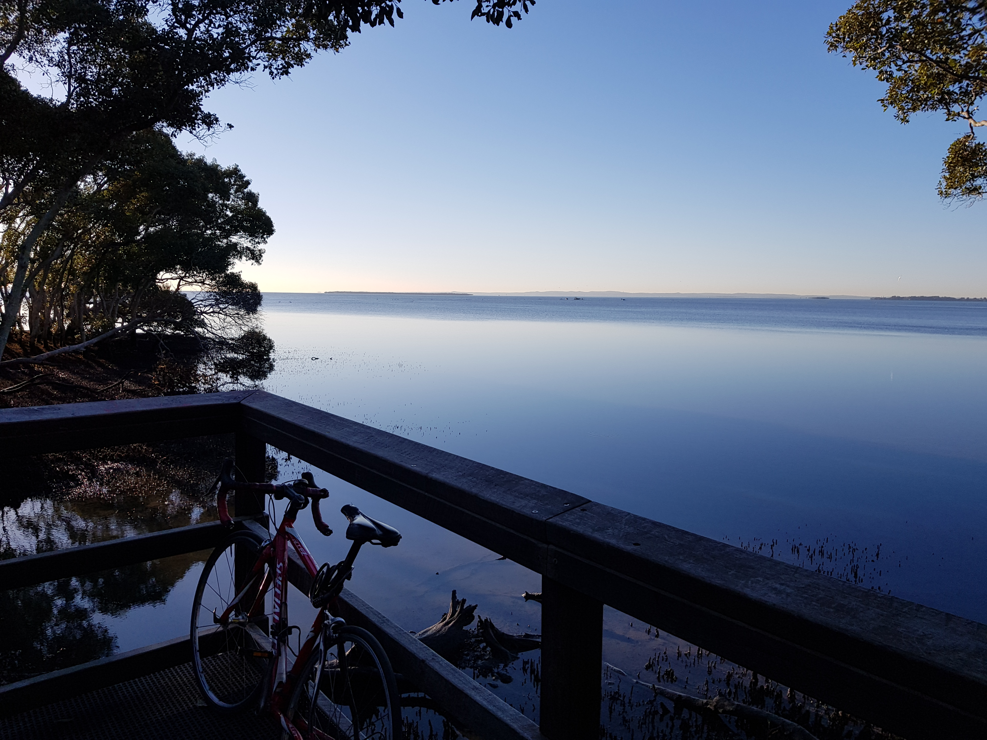 View of Moreton Bay towards Stradbroke Island from Wynnum Mangroves